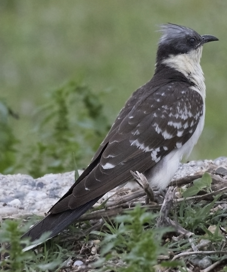 A Great Spotted Cuckoo (Clamator glandarius) in a late evening. Balcalı, Sarıçam - Adana, Turkey.